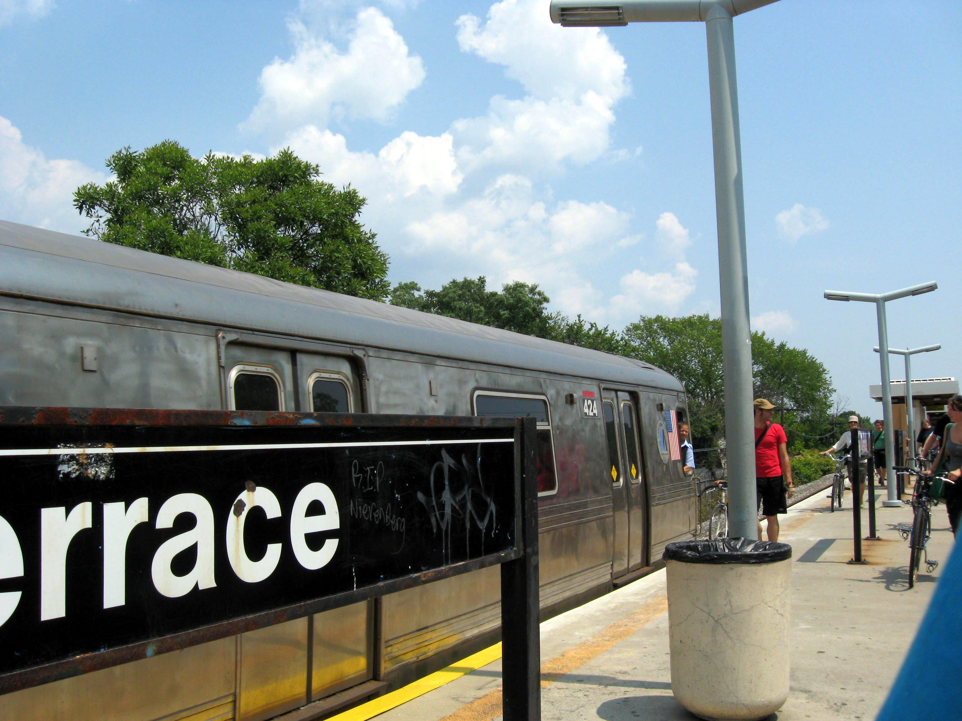 Looking north at southbound train at platform of Bay Terrace (Staten Island Railway station) on a sunny late morning